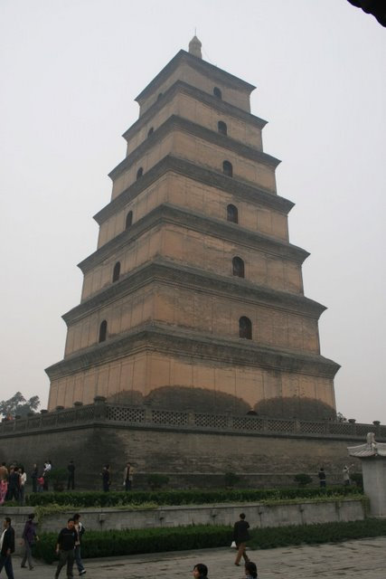 The Giant Wild Goose Pagoda, built in 652 and rebuilt in 704 during the Tang Dynasty.